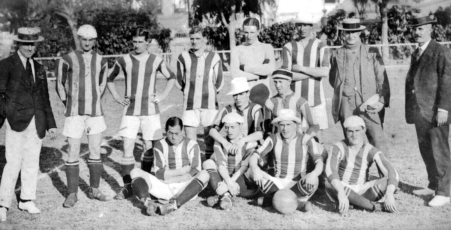 The Exeter City F.C. that played Brazil national team at Estadio das Laranjeiras of Rio de Janeiro during its South American tour.